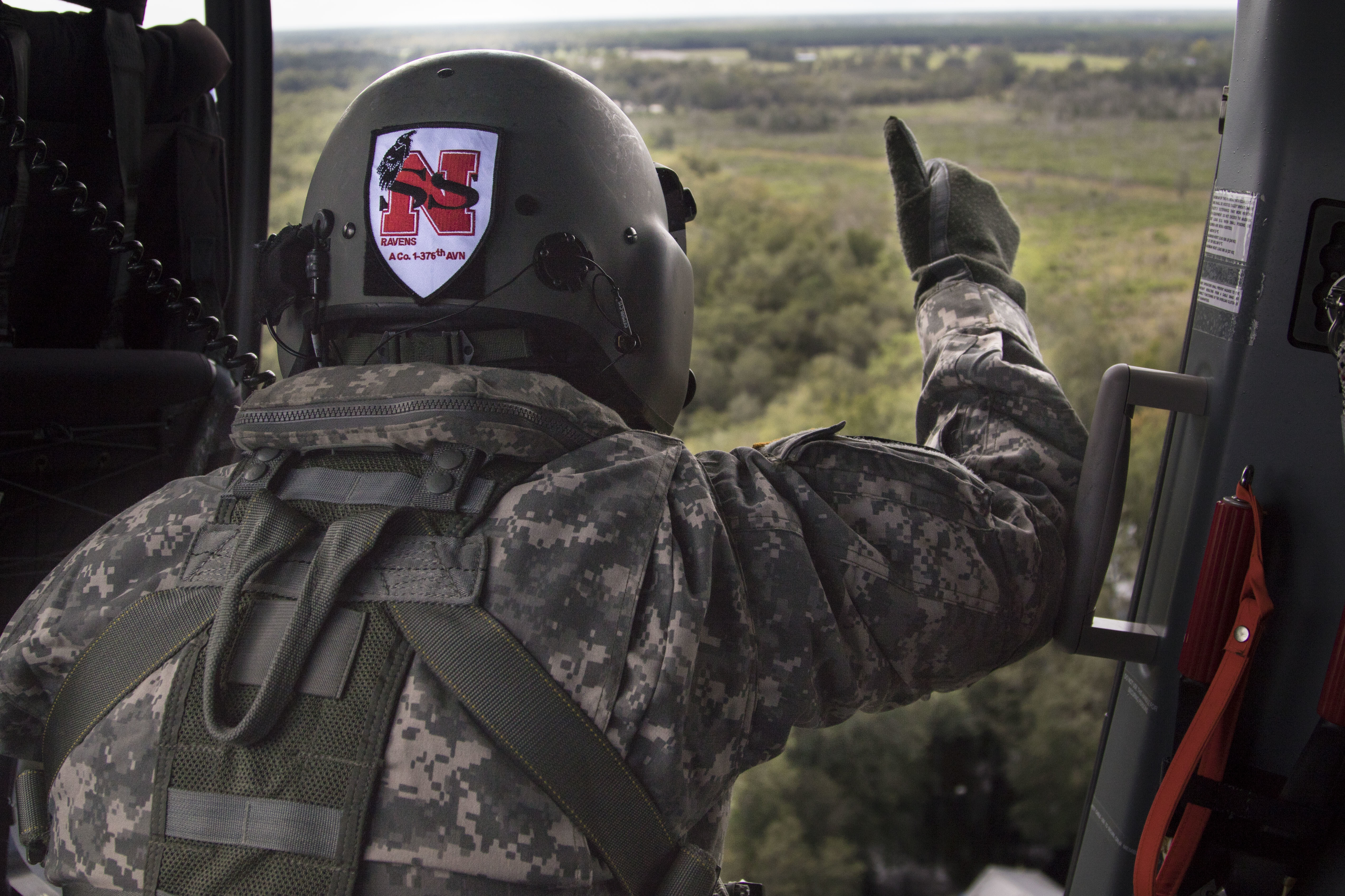 A Nebraska Army National Guard UH-72 Lakota helicopter from Company A, 1-367th Aviation (Security & Support) Regiment was tasked with another survey mission in northern Florida, Sept. 14, to evaluate river levels and damage along the Santa Fe and Ichetucknee rivers, while ensuring flooded areas were free of stranded civilians. While conducting reconnaissance, the air crew did notice multiple civilians in the area and ensured their well-being through friendly waves with “thumbs-up” approvals on their safety. While there were some areas that did indicate increased water levels, the area was deemed clear of any civilians in distress. The crew of the UH-72 Lakota helicopter included four or approximately 100 Nebraska Amy National Guard Soldiers currently serving on State Active Duty out of Jacksonville, Florida, in support of Hurricane Irma relief and recovery operations.. (Nebraska National Guard photo by Spc. Lisa Crawford)